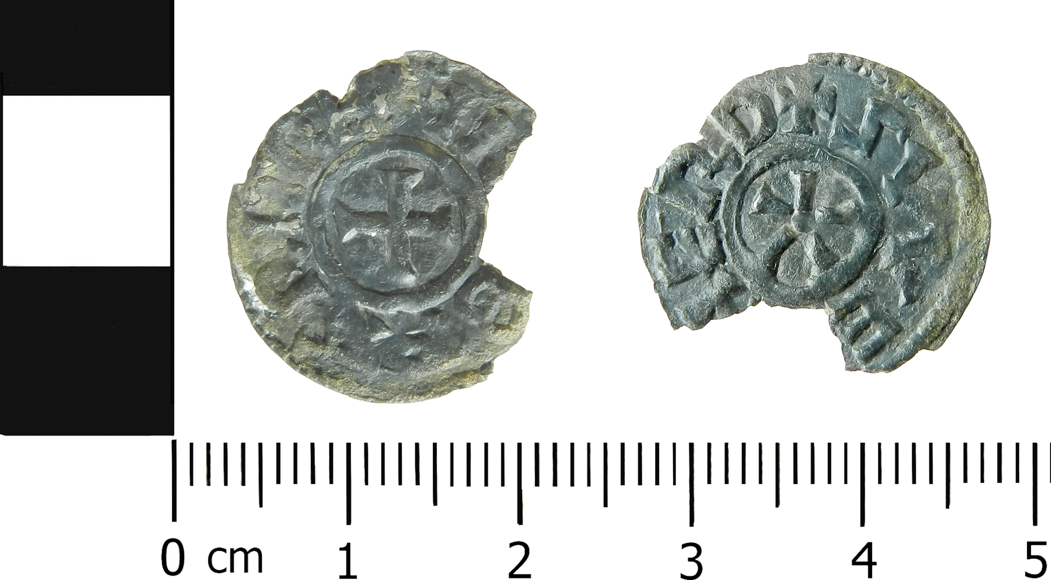 A silver penny of Ecgbert King of Wessex (802-839). Non-portrait type, minted in Canterbury AD 825-828. Obverse: H(EC)BEARHT REX; plain cross. Reverse: SWE(F)HERD; five limbed cross. North no. 568.